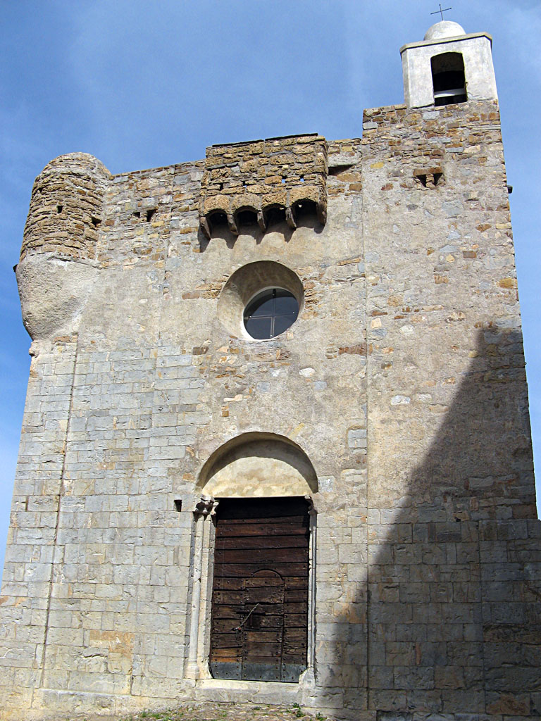 The fortified church of S. Pietro (XIII century) in the small village of Lengueglietta, Liguria (Italy)